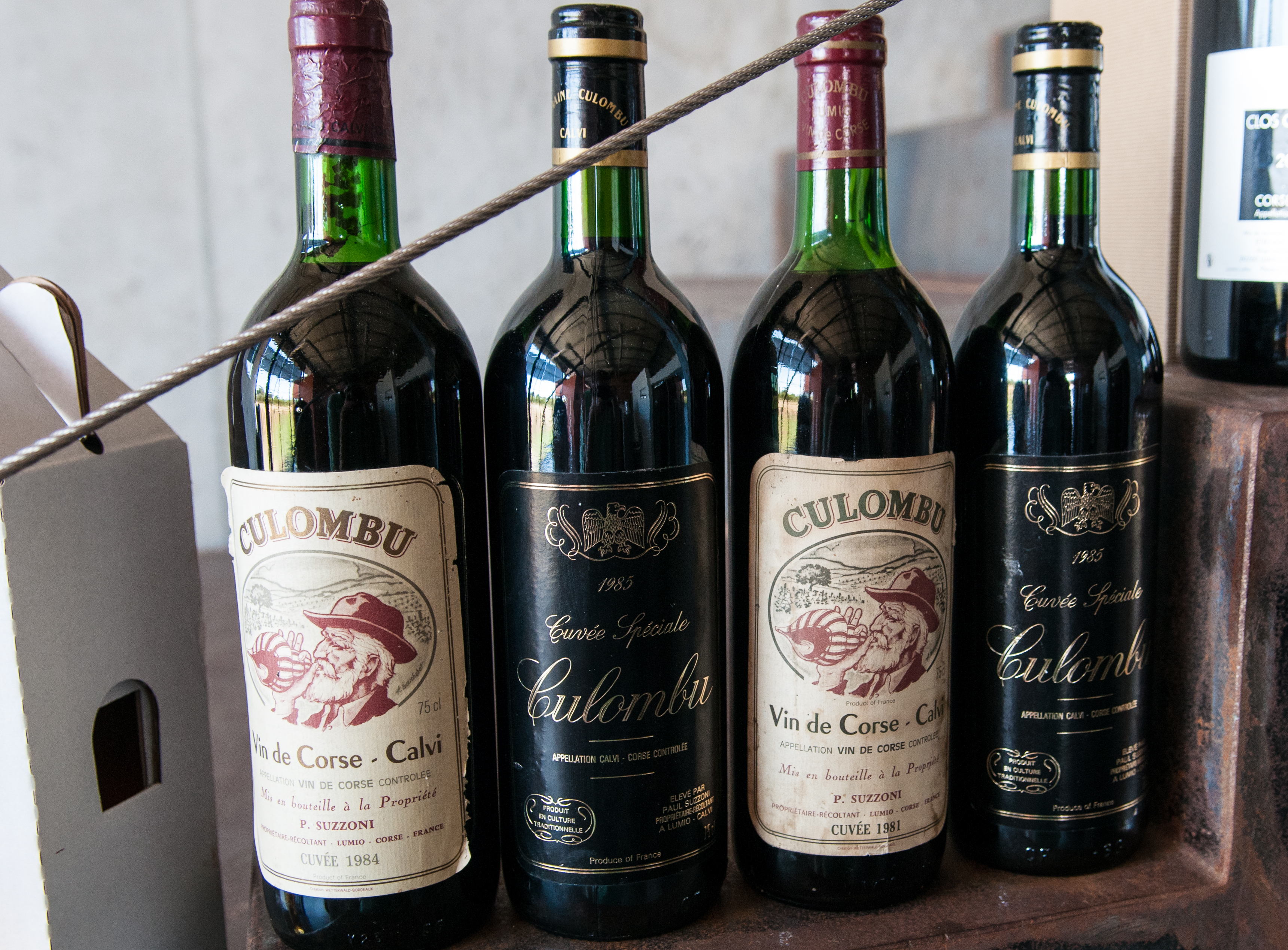 Clos Culombu vintage wines